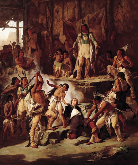 Pocahontas and John Smith by Victor Nehlig, 1870, oil on canvas, Brigham Young University Museum of Art